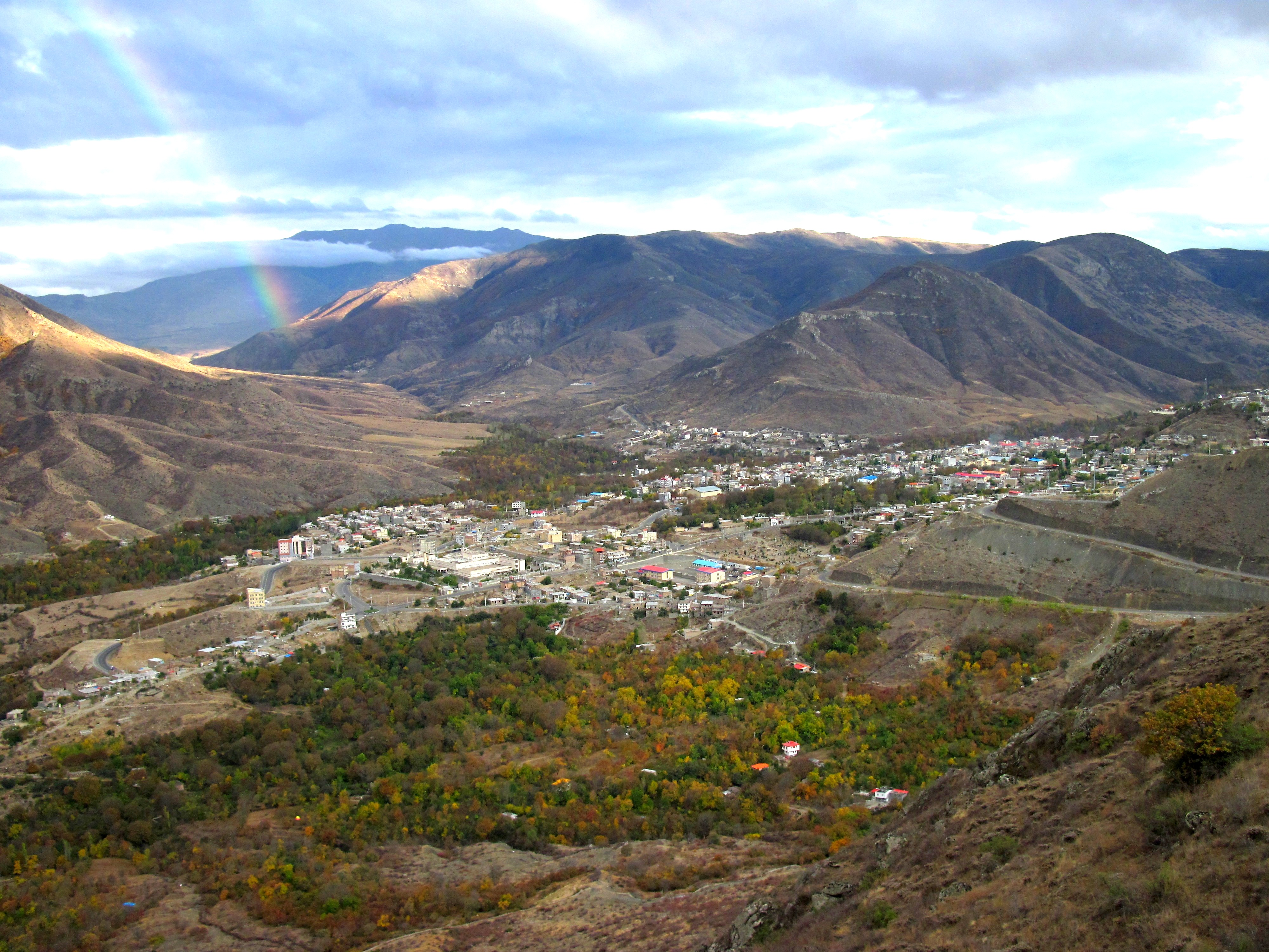 For Kaleybar page